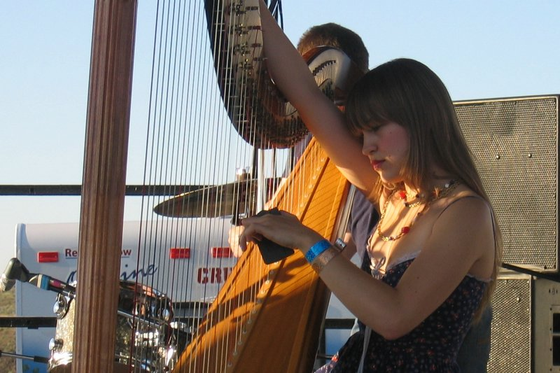 Joanna Newson. Sasquatch Music Festival @ The Gorge, WA